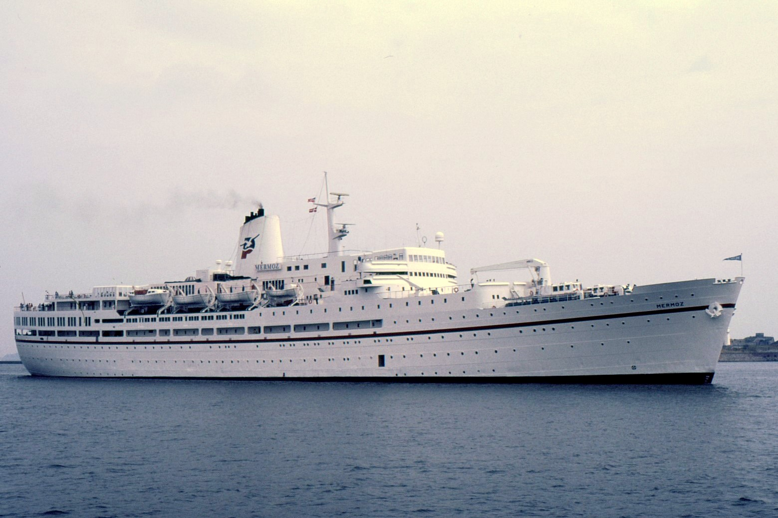 The cruise ship Mermoz moored at Copenhagen on July 21, 1986.